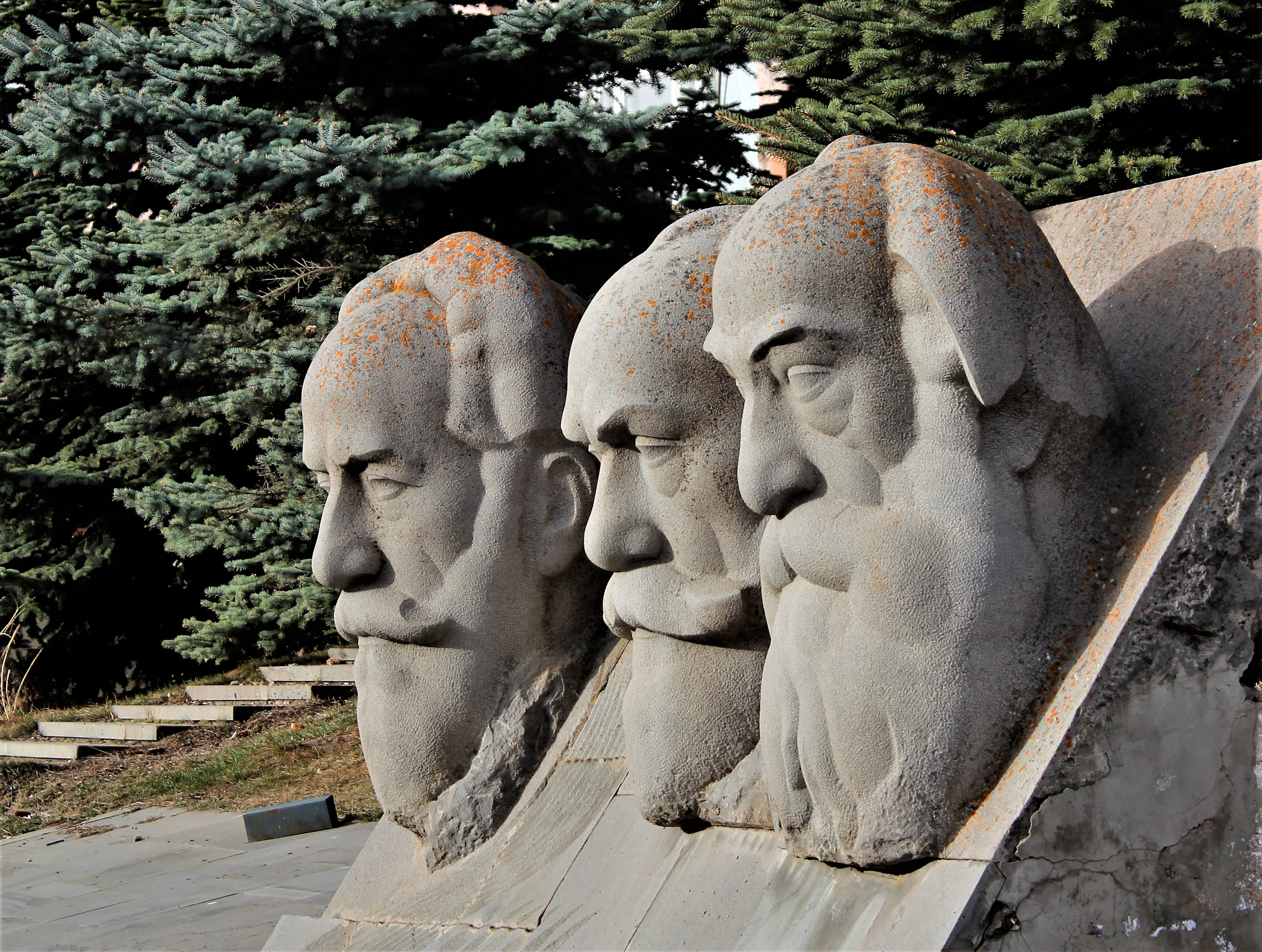 Orbeli Brothers' busts, near the museum named after them in Tsakhkadzor. Sculptor։ Artashes Hovsepyan